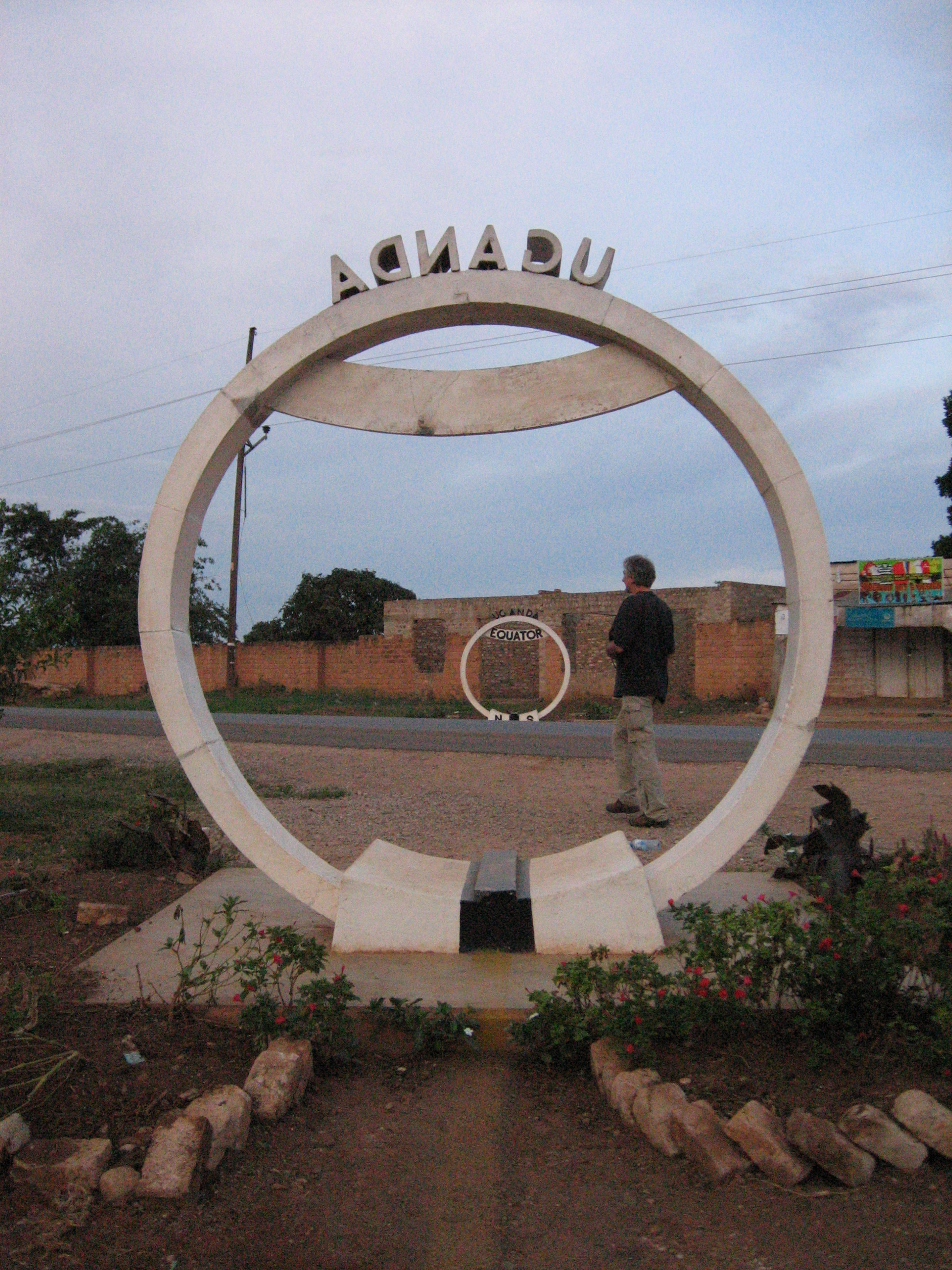 Equator monument in Uganda near the city of Masaka.